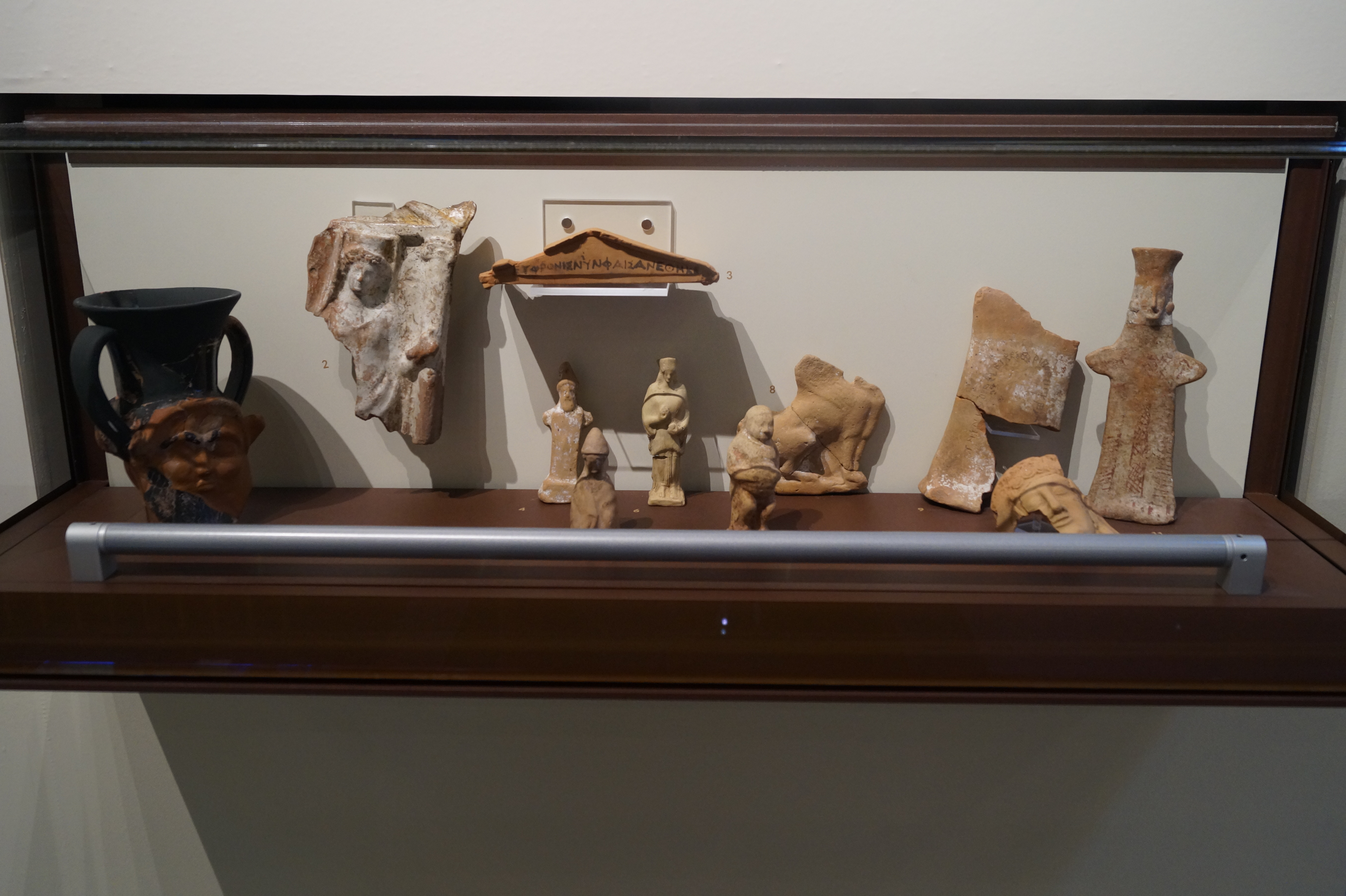 Archaeological Museum of Thebes: Findings from the cave of the Leibethrid Nymphs.